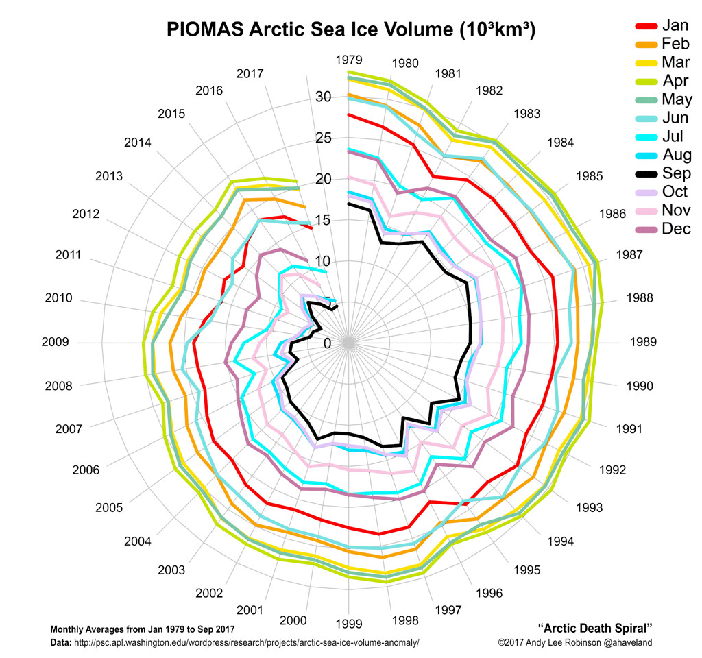 Monthly averages from January 1979 - January 2014. Data source via the Polar Science Center (University of Washington). Data visualisation by Andy Lee Robinson.